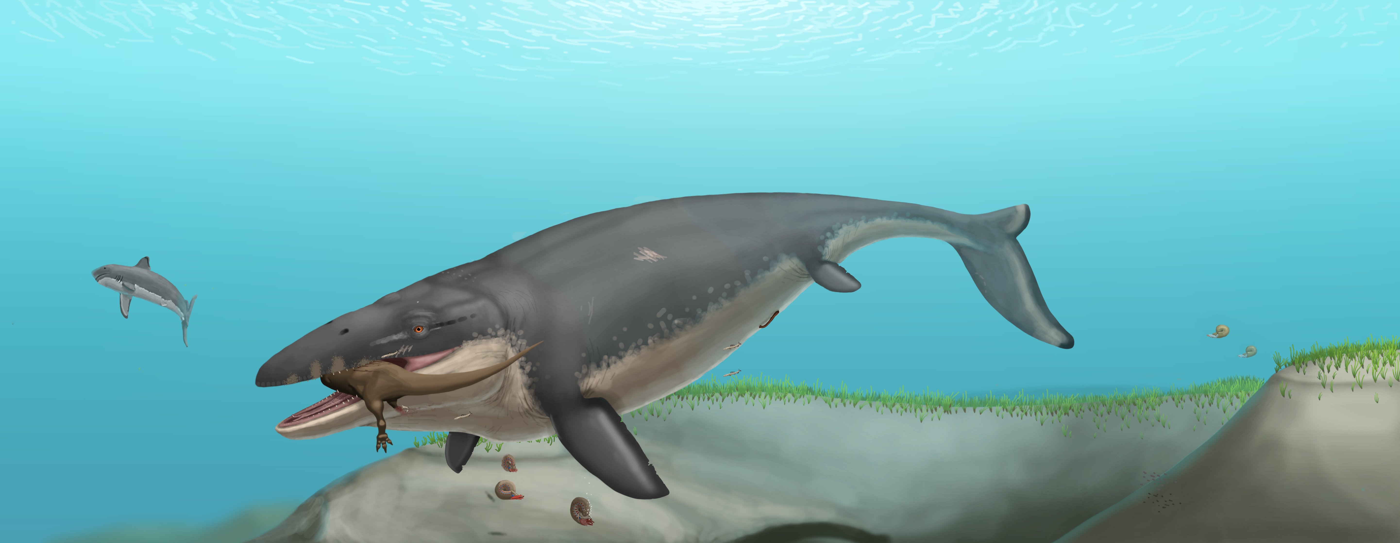 A life reconstruction of 'Mosasaurus' feeding on a juvenile abelisaurid. Van der Ham, R. W. J. M., Van Konijnenburg-van Cittert, J. H. A., & Indeherberge, L. (2007). Seagrass foliage from the Maastrichtian type area (Maastrichtian, Danian, NE Belgium, SE Netherlands). Review of Palaeobotany and Palynology, 144(3), 301-321.